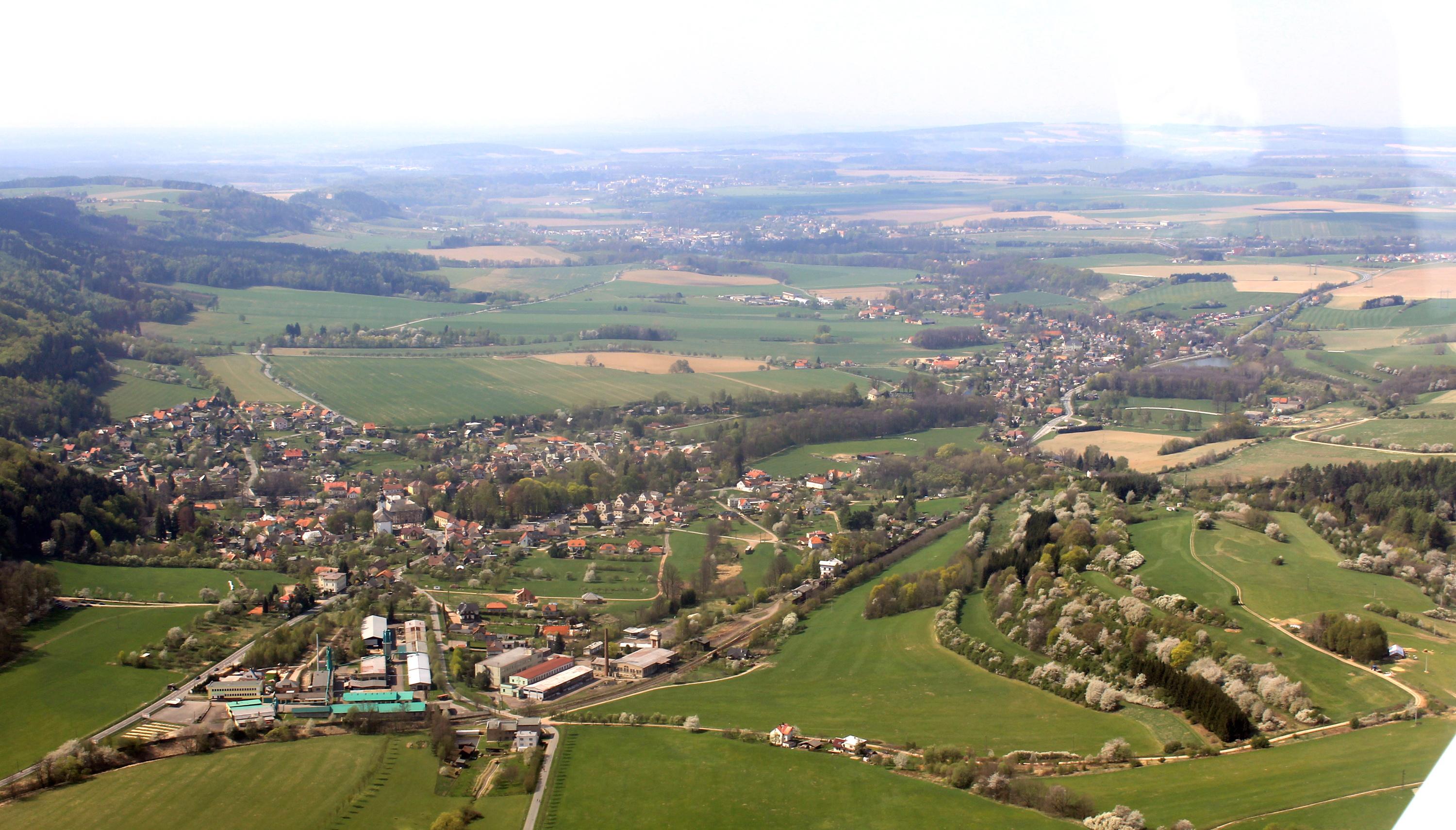 Village Potštejn from air, eastern Bohemia, Czech Republic